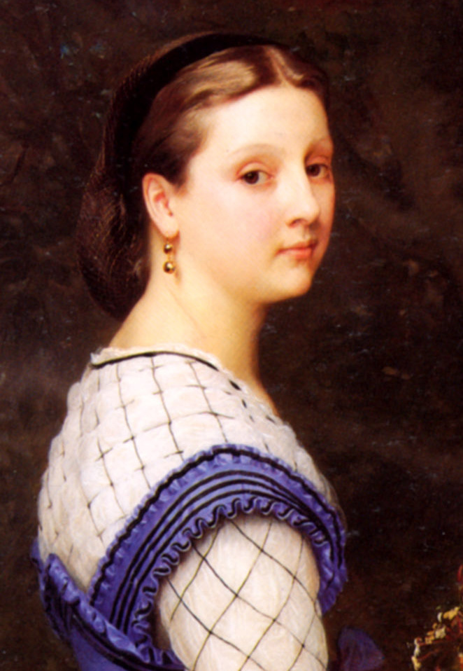 Artist William-Adolphe Bouguereau (1825–1905) Alternative namesWilliam Bouguereau Adolphe-William BouguereauDescriptionFrench painterDate of birth/death30 November 182519 August 1905Location of birth/deathLa RochelleLa RochelleAuthority control : Q483992 VIAF: 41966603 ISNI: 0000 0001 2129 8561 ULAN: 500011205 LCCN: n85059001 WGA: BOUGUEREAU, William-Adolphe WorldCat TitleThe Countess de Montholon (Albine de Montholon (1779-1848).)Date19th centuryMediumoilCurrent locationUnknownSource/PhotographerUnknown